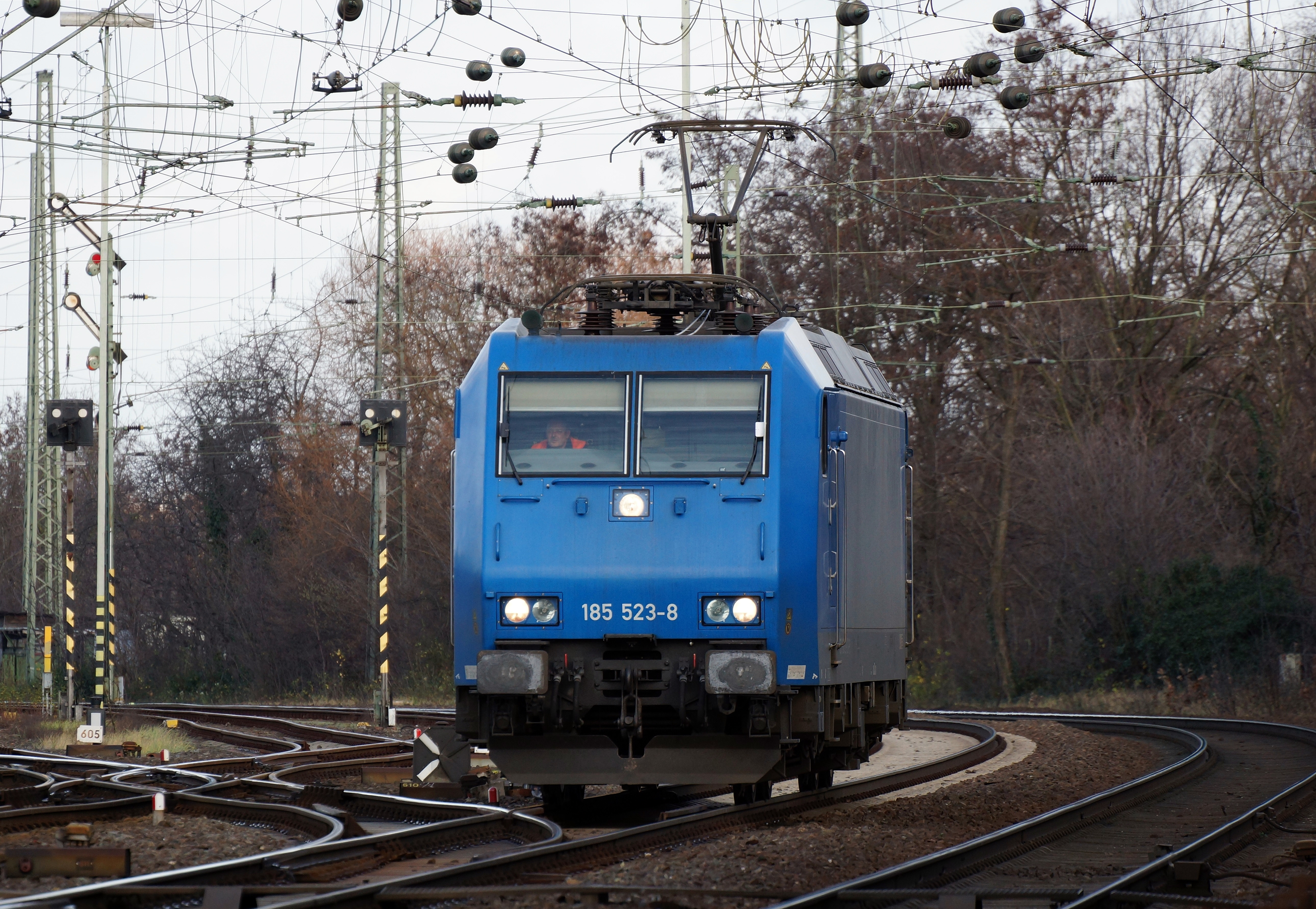 HGK/RheinCargo 185 523-8 in the near of the marshalling yard Köln-Kalk Nord.